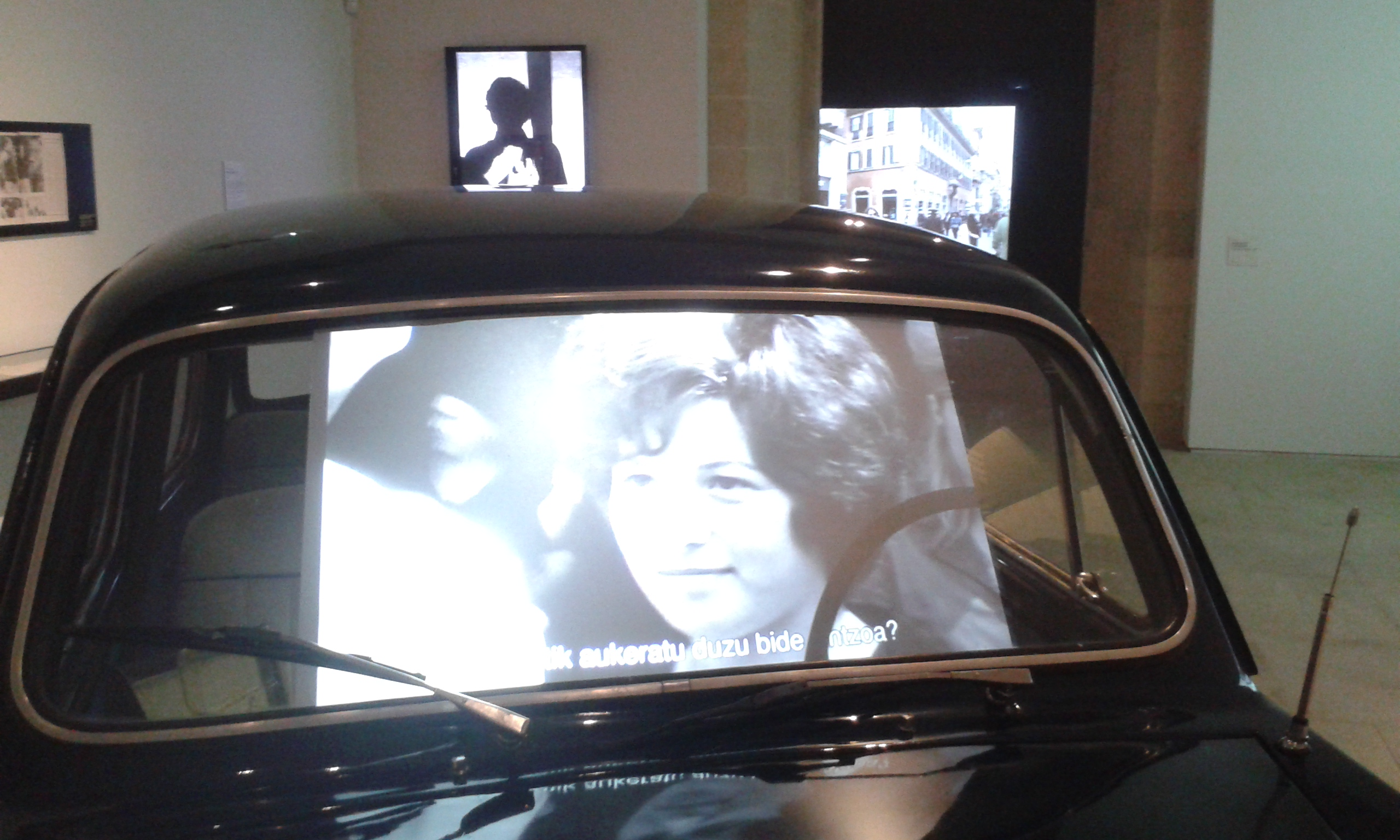 Capture of Comizi d'Amore on a screen installed in a car during a Pier Paolo Pasolini exhibition, San Telmo Museoa, Donostia-San Sebastián